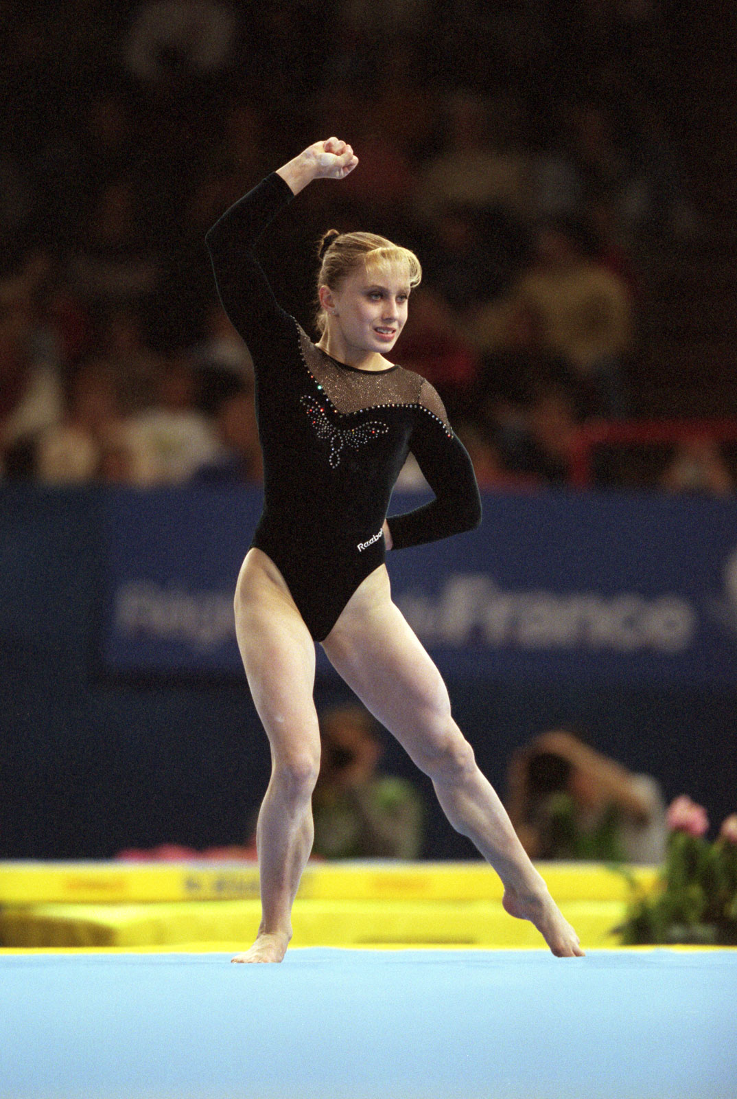 Paris-Bercy 18/03/2001